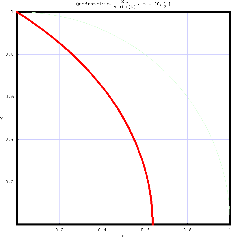 Quadratrix with r = 2 t π sin ⁡ t {\displaystyle r={\frac {2t}{\pi \sin t } and t=]0,Pi/2] in red, the unit circle is pale green